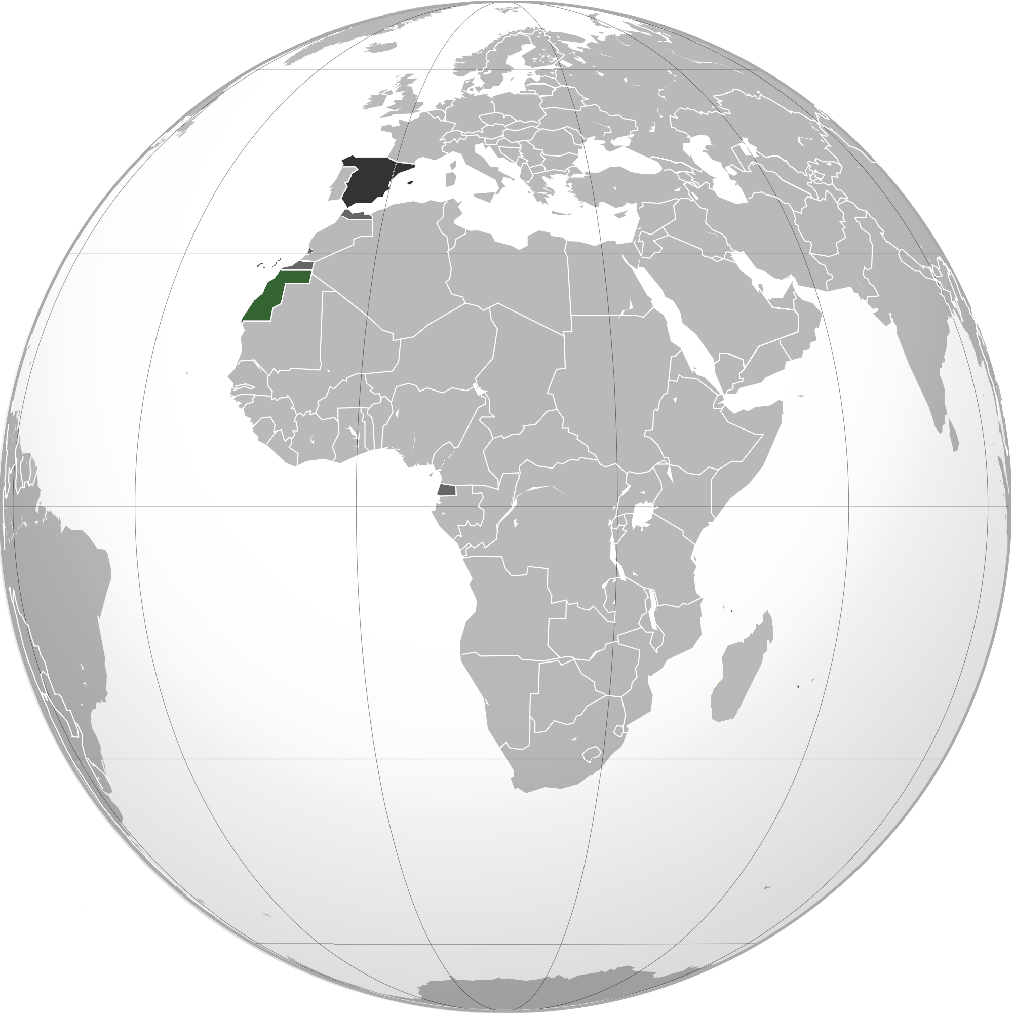 Green: Spanish Sahara Dark gray: Other Spanish possessions Darkest gray: Spain